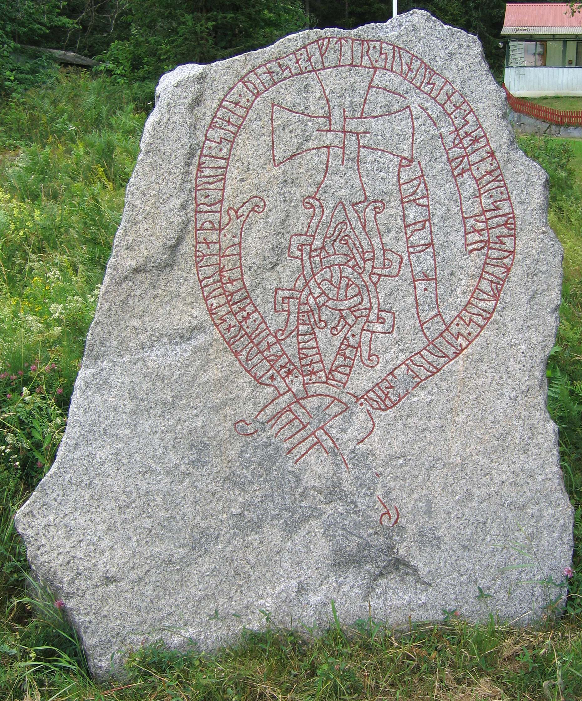 Runestone U 1016 near Fjucky, north of Uppsala, Sweden.